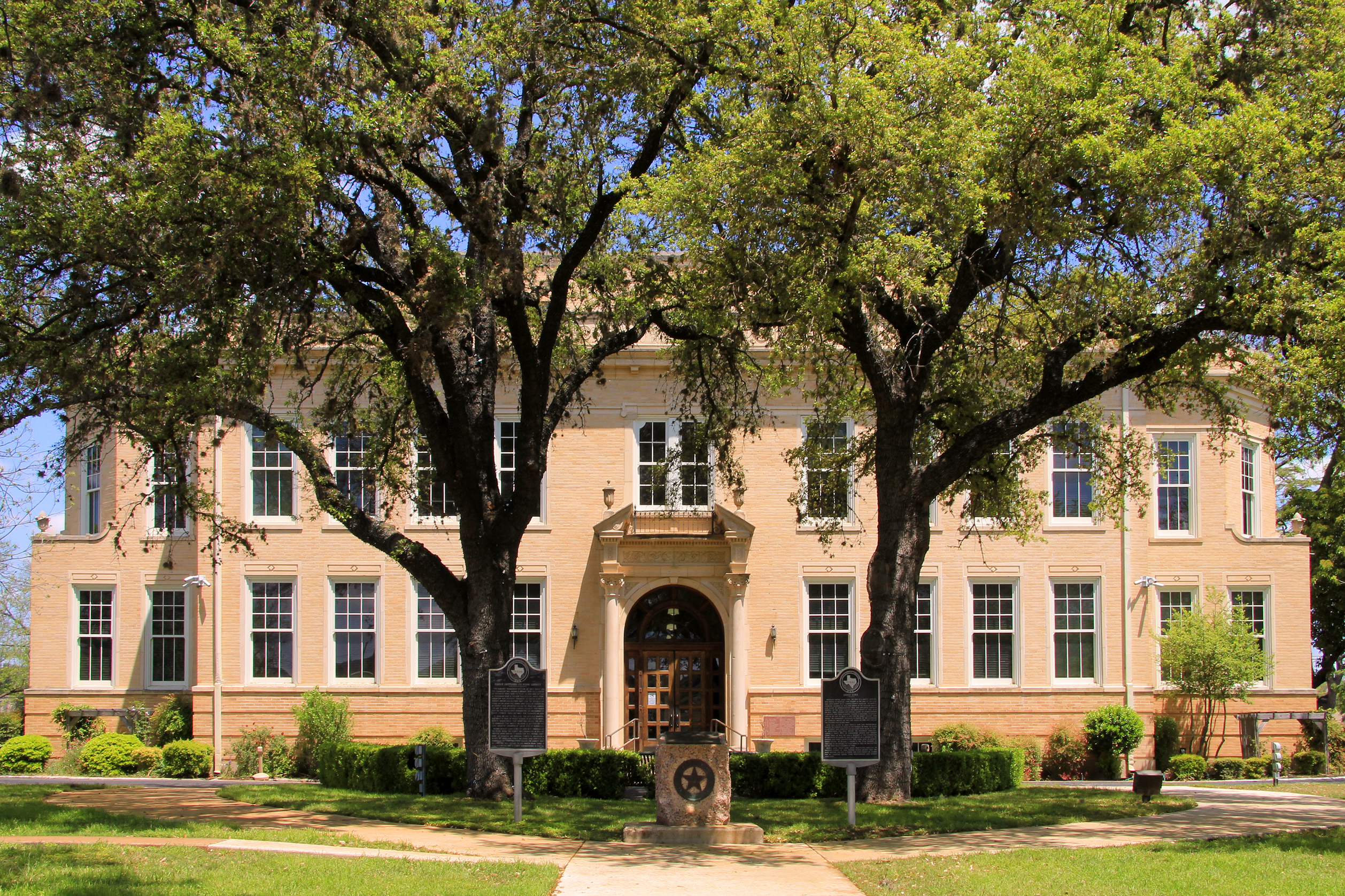 The Kerr County Courthouse in Kerrville, Texas, United States. The Beaux-Arts style building was constructed in 1926.